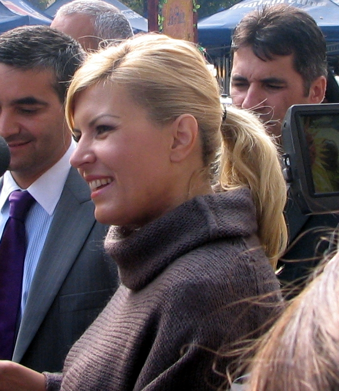 Elena Udrea, Minister of Tourism (2008-), Romania. Taken in Sinaia.